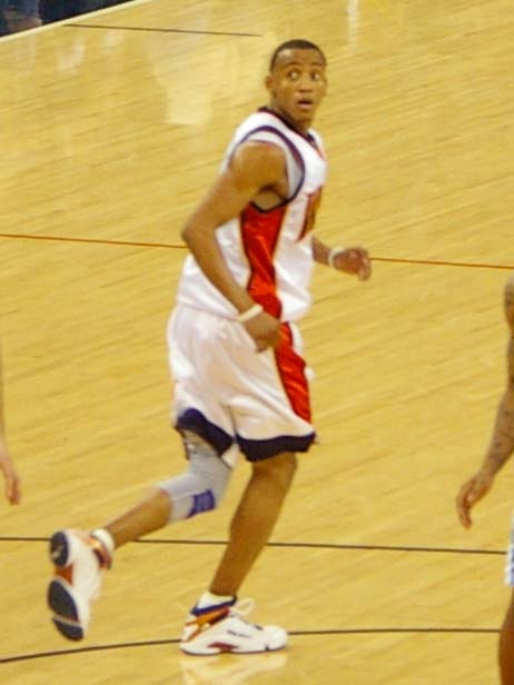 This file has been extracted from another file: LiveDie By the 3.jpg